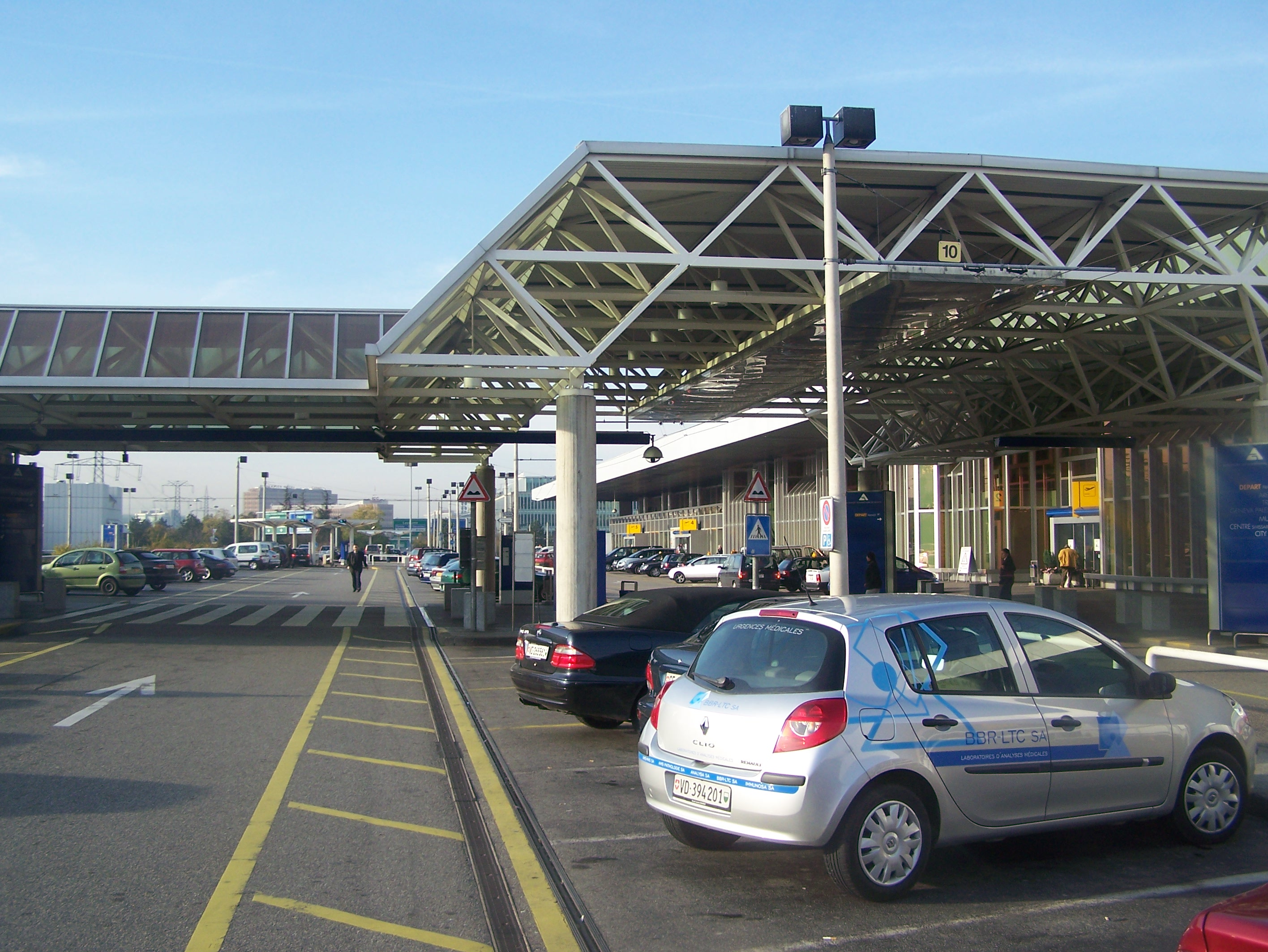 Entrance of the Geneva airport in Switzerland.